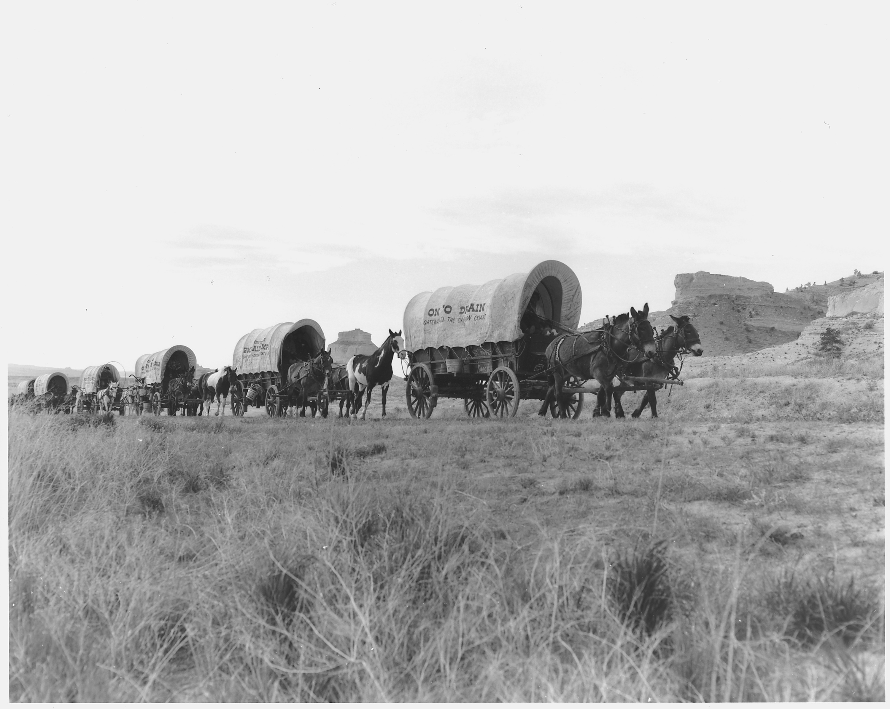 Scope and content: Mounted man leading wagon train past rock formations.